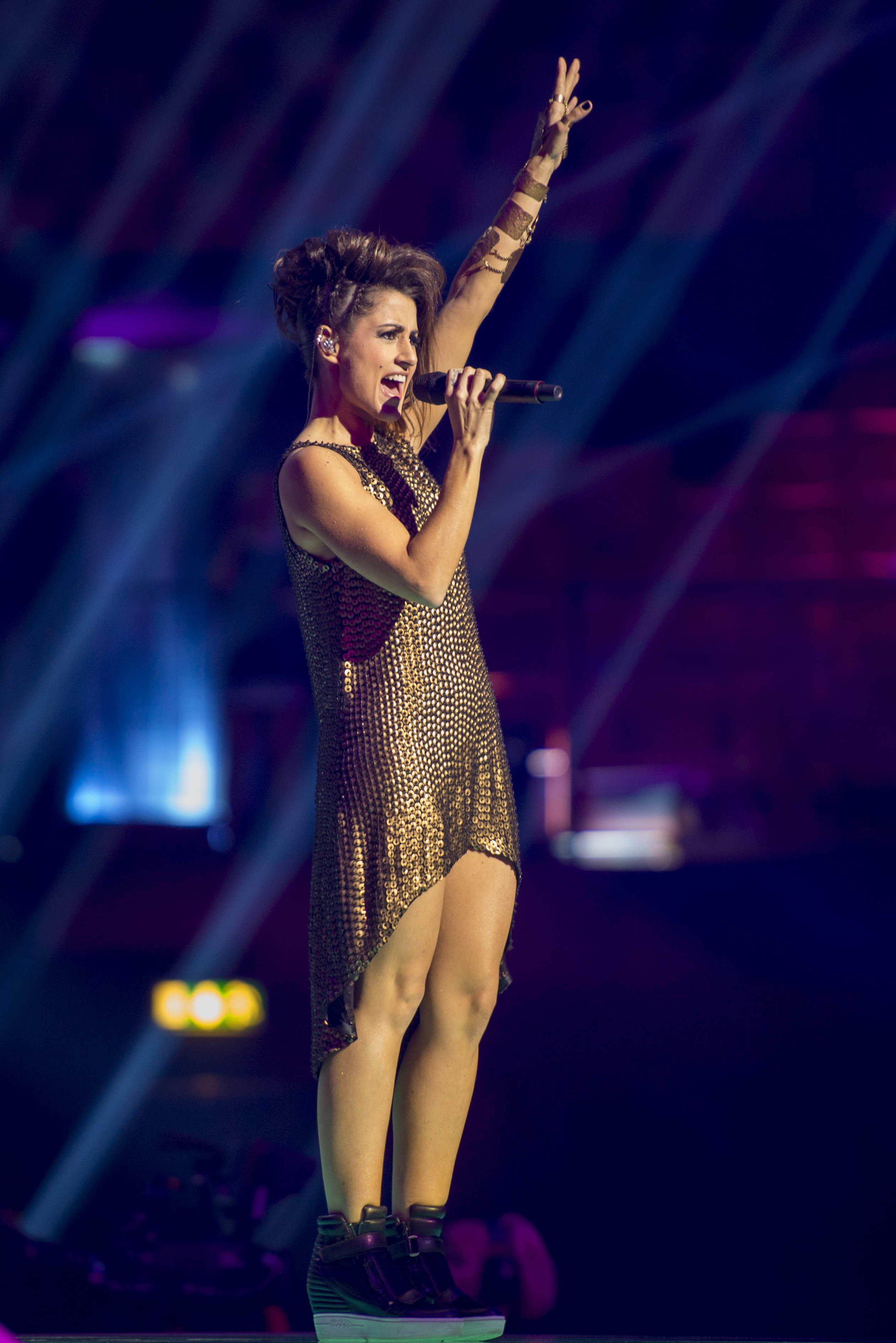 Barei representing Spain with the song "Say Yay!" during a rehearsal for "the Big Five" in the Eurovision Song Contest 2016 in Stockholm. (Help translate this text)